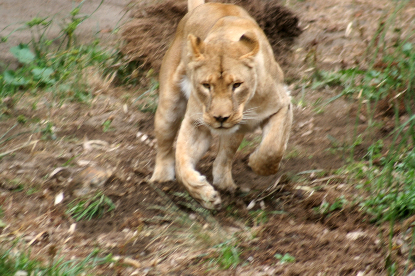 Most of the time female lion would do all